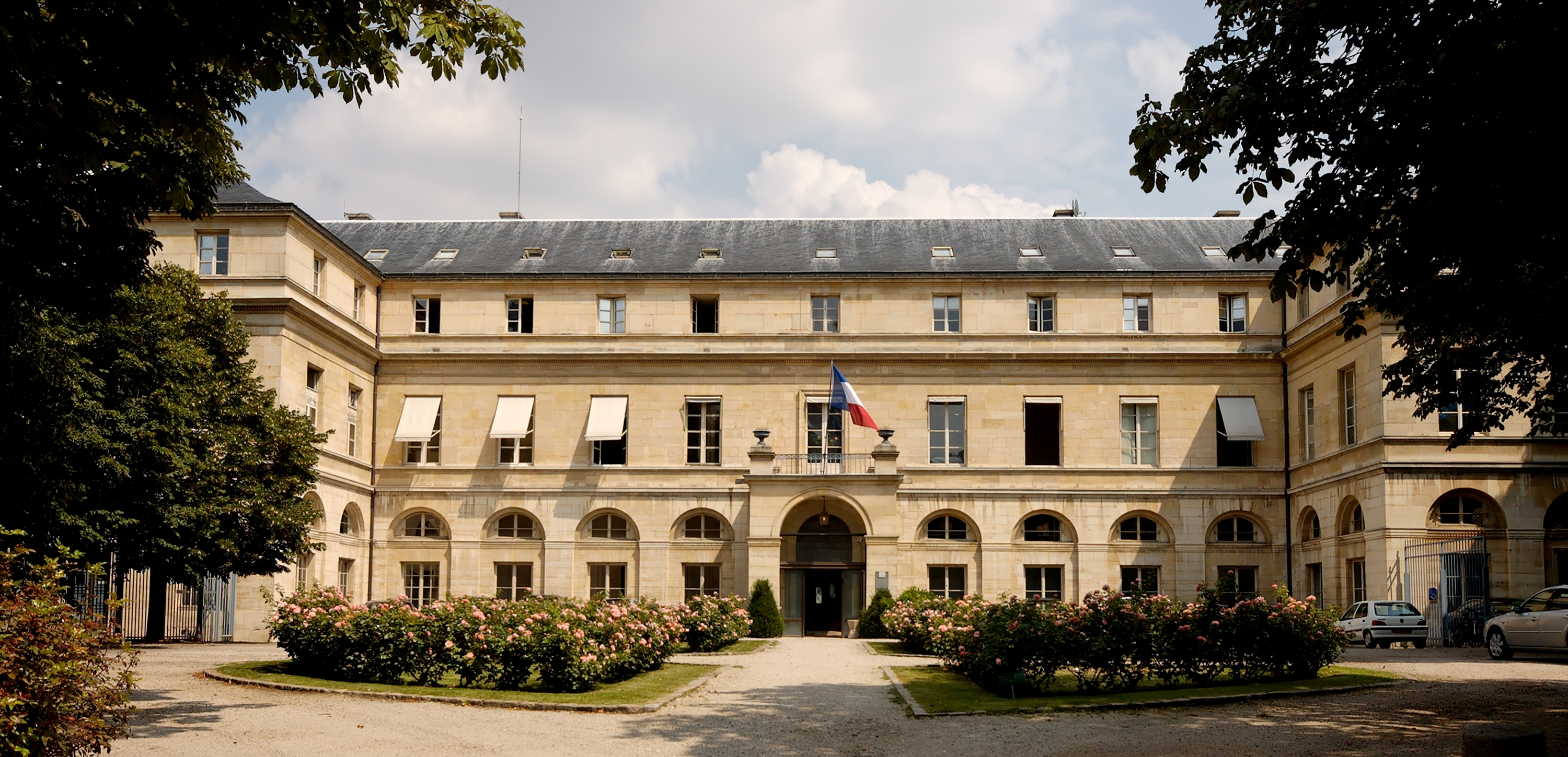 Main buildings of the French Ministry of Higher Education and Reseach, former buildings of the École polytechnique. Rue Descartes, Paris.